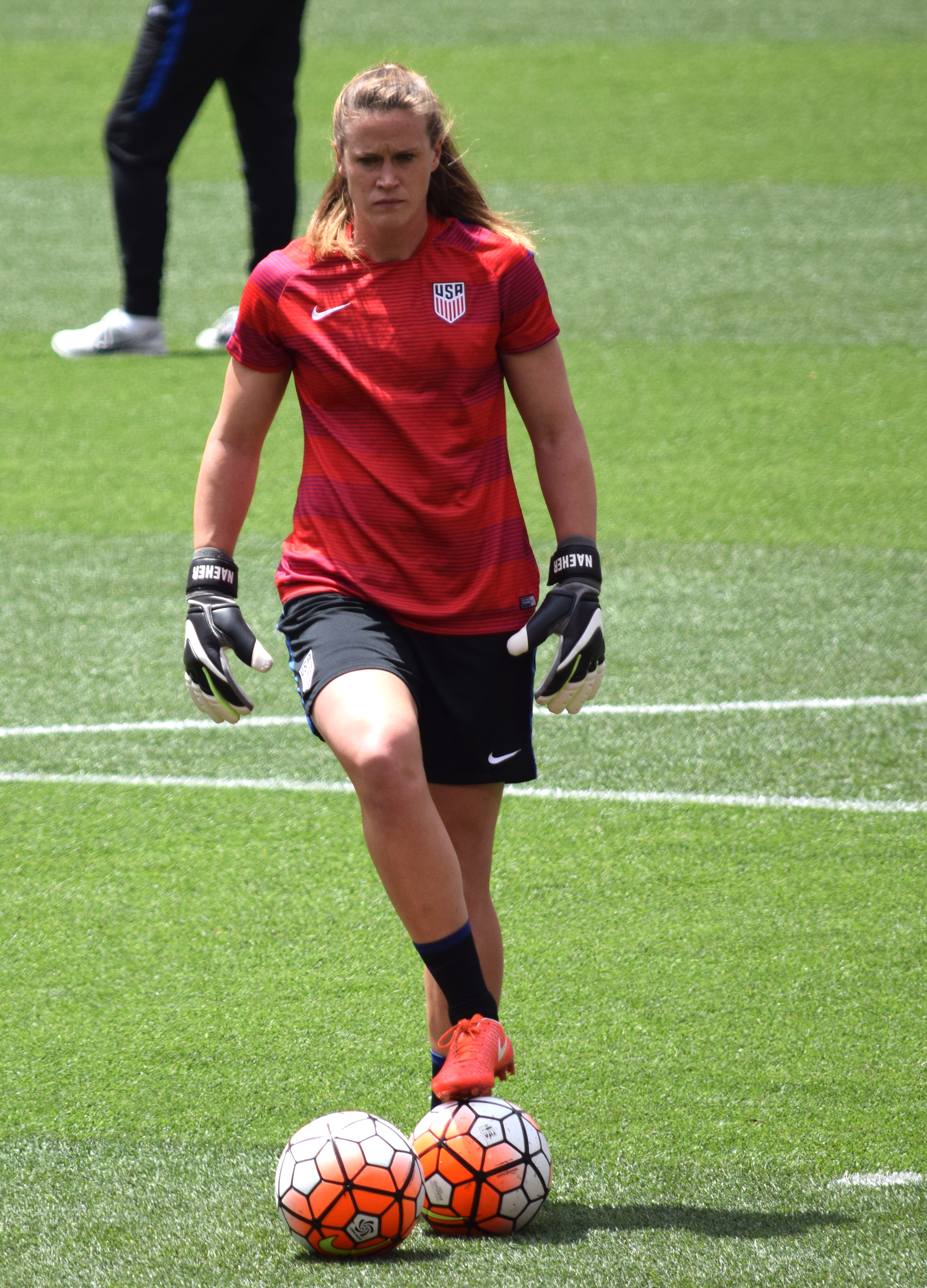 Alyssa Naeher with the United States women's national soccer team before a match against Japan on June 5, 2016 in Cleveland, Ohio.